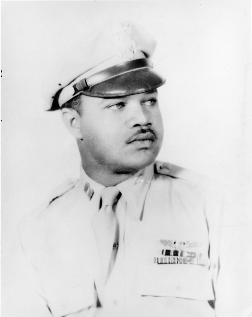 Louis R. Purnell, 1920-2001, a Tuskegee Airman and curator of Astronautics at the National Air and Space Museum, wears his airman uniform. Early on Purnell was able to realize his dream of becoming a pilot when the Civilian Pilot Training Program was instituted on the campus of his undergraduate Institution, Lincoln University. In 1942, he was accepted into the seventh class of African American Army Air Force aviation cadets stationed at the Tuskegee Army Air Field in Tuskegee, Alabama (the Tuskegee Airmen), and in 1943 joined the all-Black 99th Fighter Squadron. During World War II, he completed two tours of duty in North Africa and southern Italy with the 99th, and later the 332nd Fighter Group. After his return to the United States, Purnell worked with the office of the Quartermaster General and the United States Book Exchange at the Library of Congress In 1961, Purnell joined the Division of Invertebrate Paleontology and Paleobotany in the National Museum of Natural History. In 1968, he moved to the Department of Astronautics of the National Air and Space Museum. During his career in the Astronautics Department (renamed the Department of Space Science and Exploration in 1980), he progressed through the ranks from Museum Specialist to Curator until his retirement in January 1985 Full description